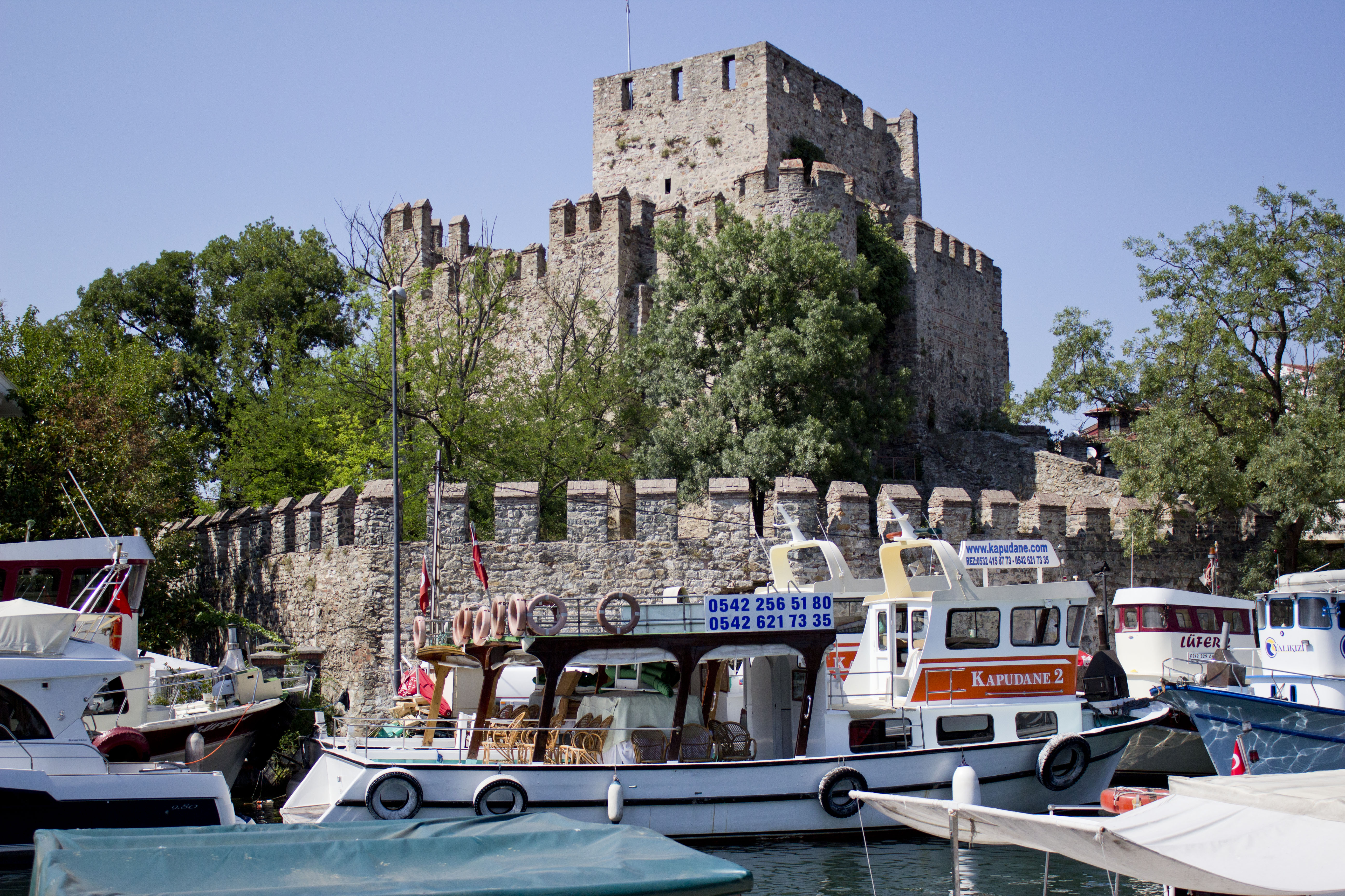 A view of the Anatolian fortress in Istanbul, Turkey